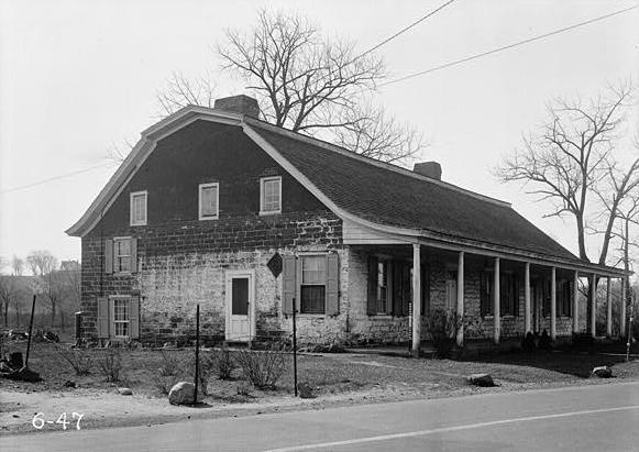 Steuben House, New Bridge Road, River Edge, Bergen County, New Jersey